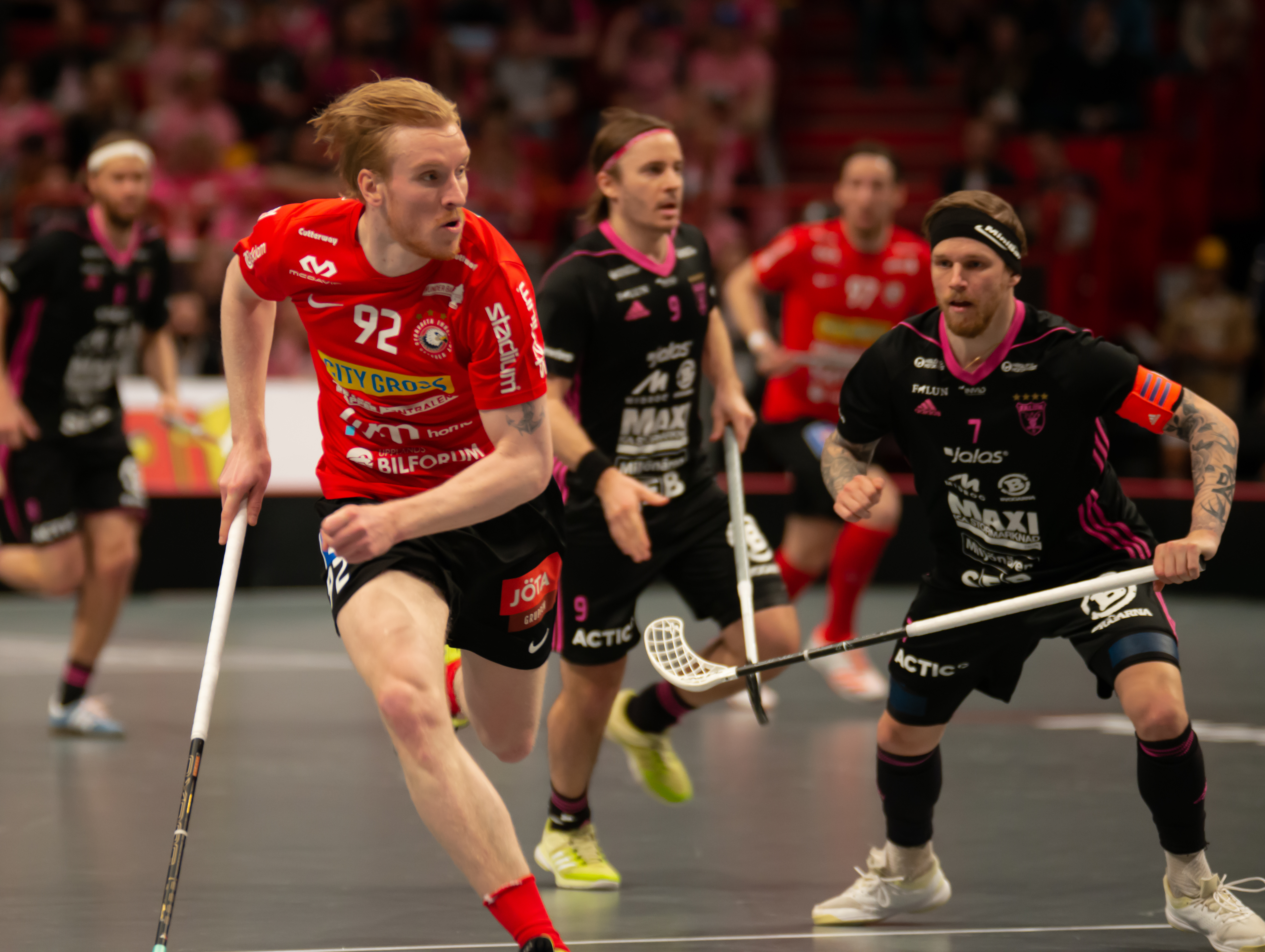 Floorball Mens Sweden National final 2018